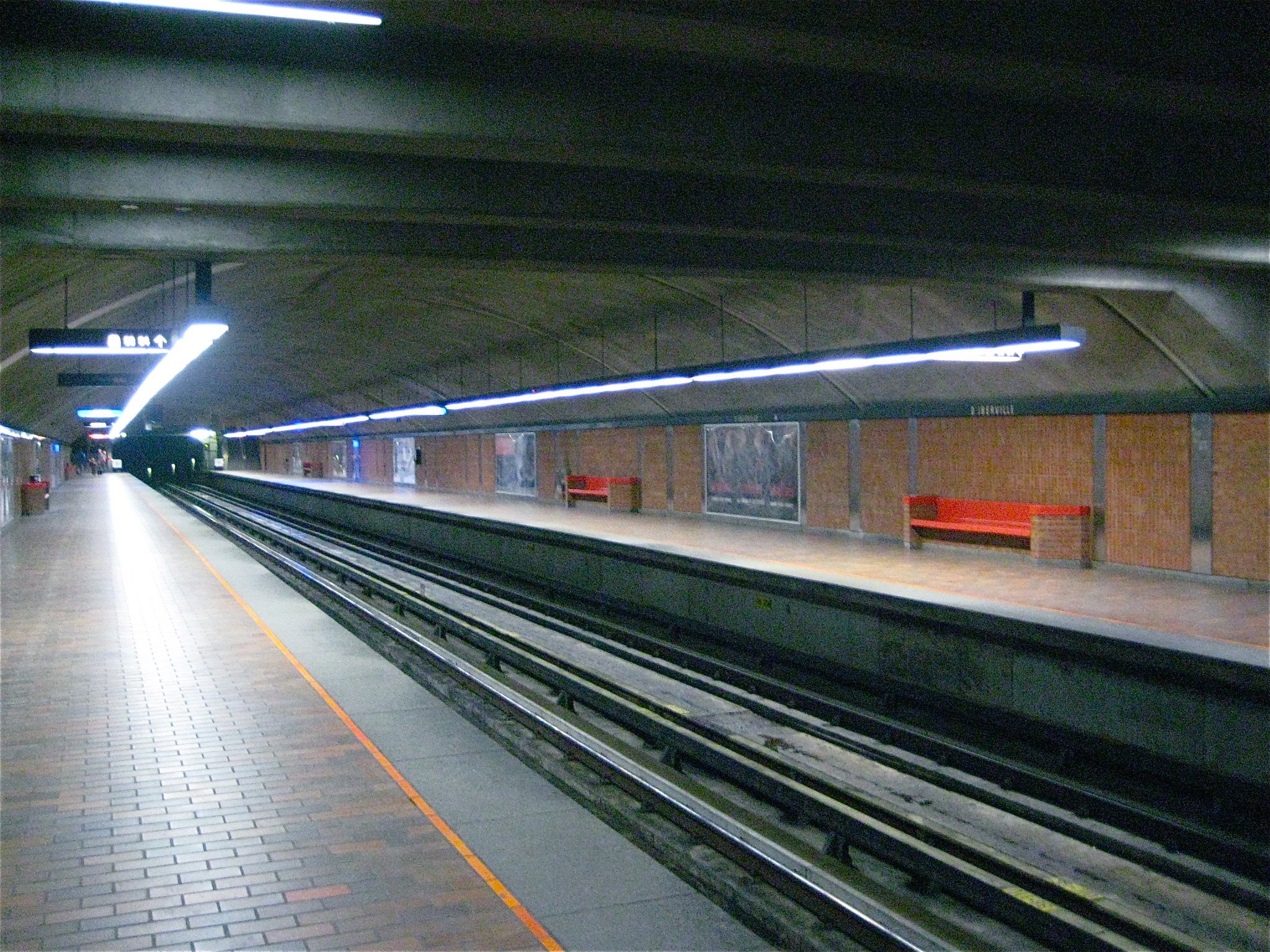 D'Iberville Metro station platform